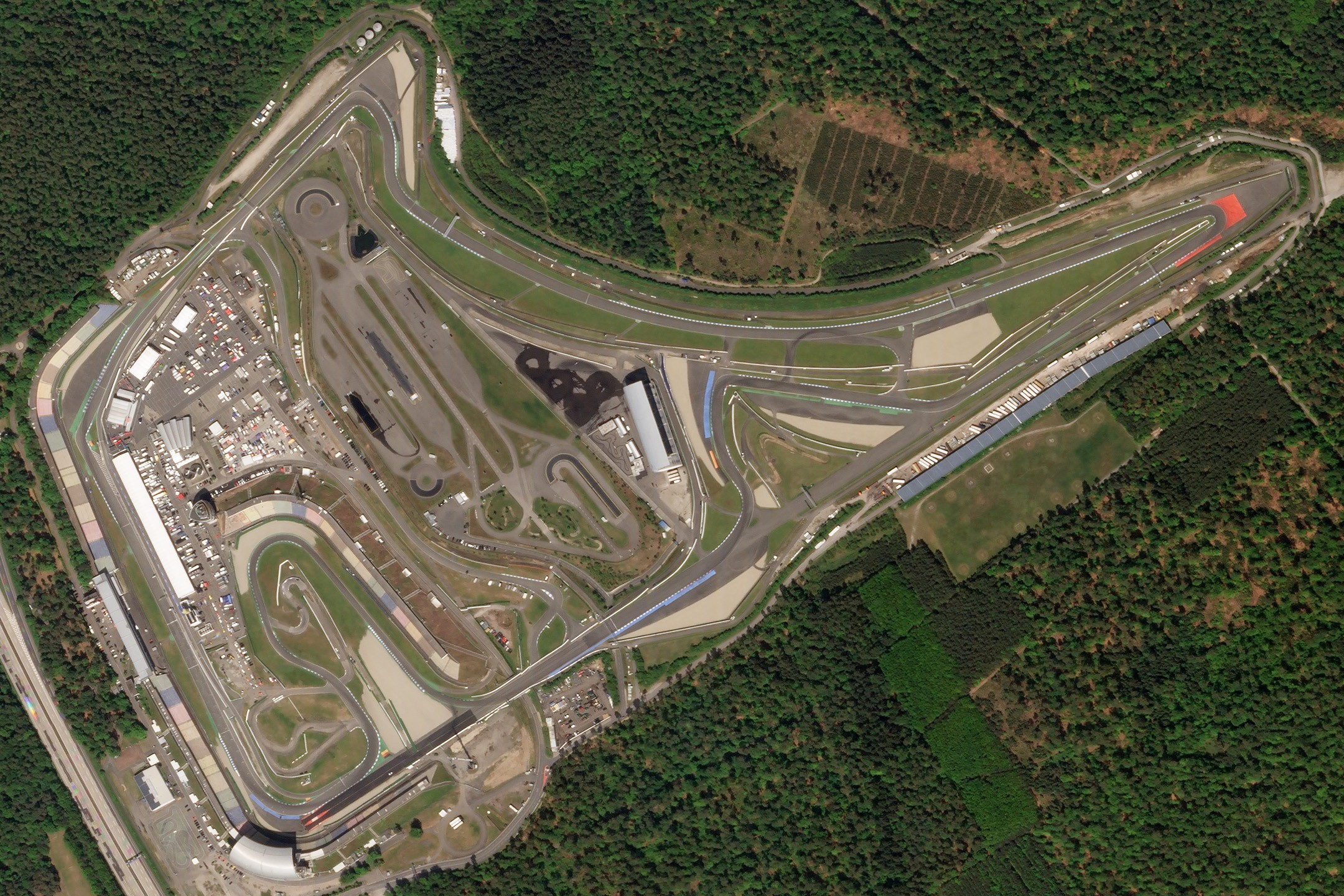 The Hockenheimring, a motor racing circuit situated in the Rhine valley near the town of Hockenheim in Baden-Württemberg, Germany and host to the German Grand Prix. Image taken on April 29, 2018, by a Planet Labs SkySat satellite.